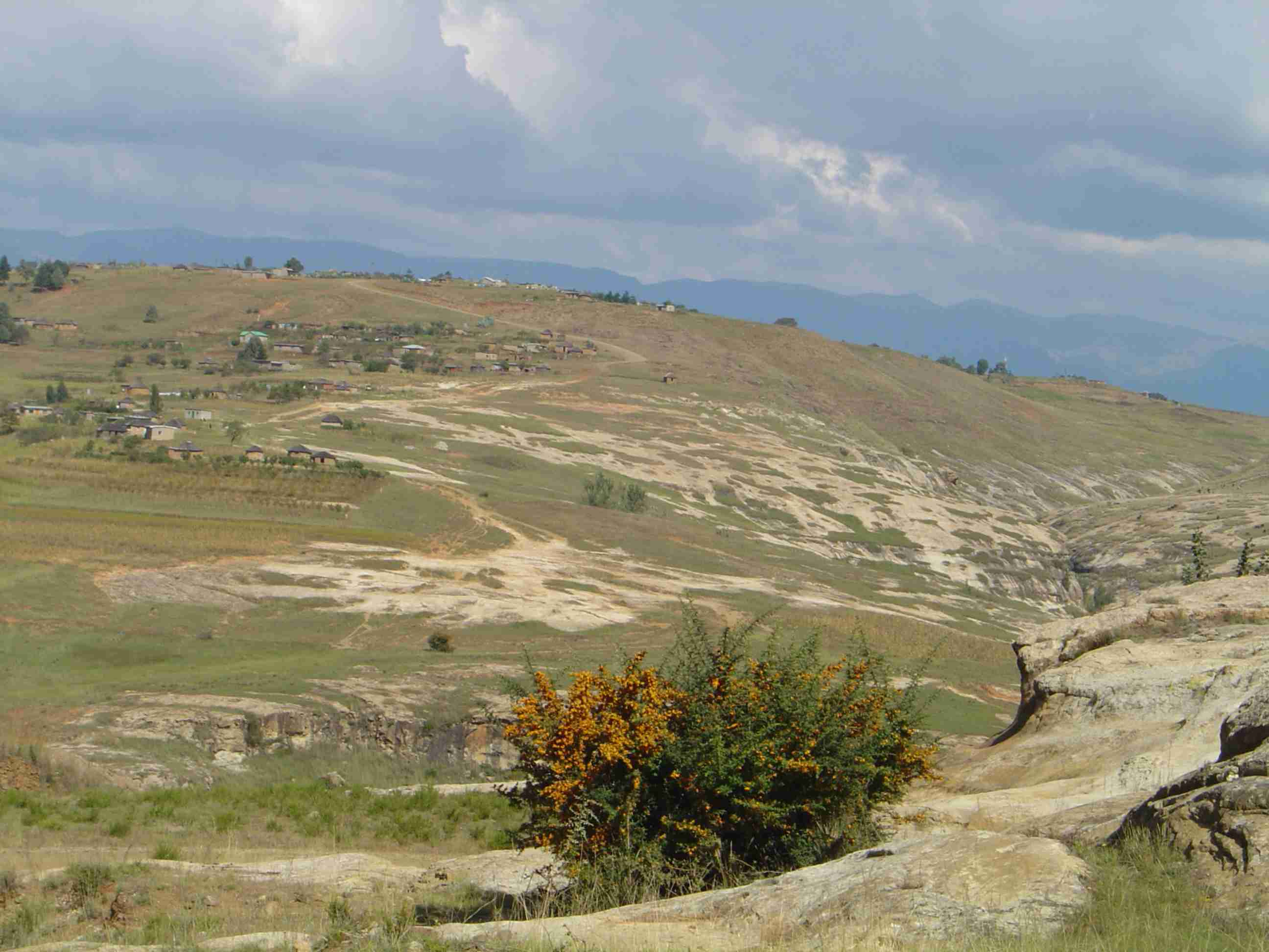 Erosion in Lesotho